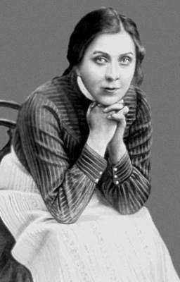 Maria Lilina as Sonya in Chekov's Uncle Vanya in Moscow Art Theatre.